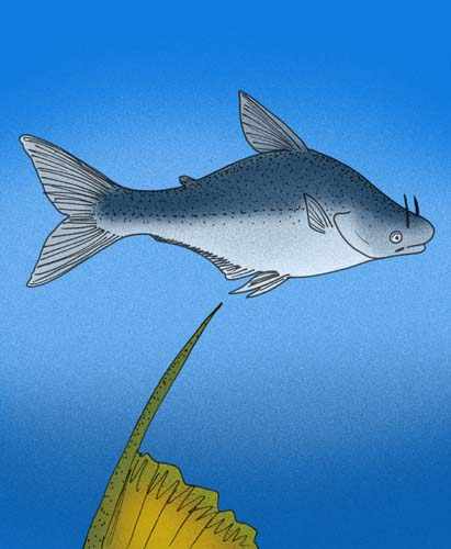 Reconstruction of the extinct catfish, Pangasius indicus, from the Paleogene of Sumatra